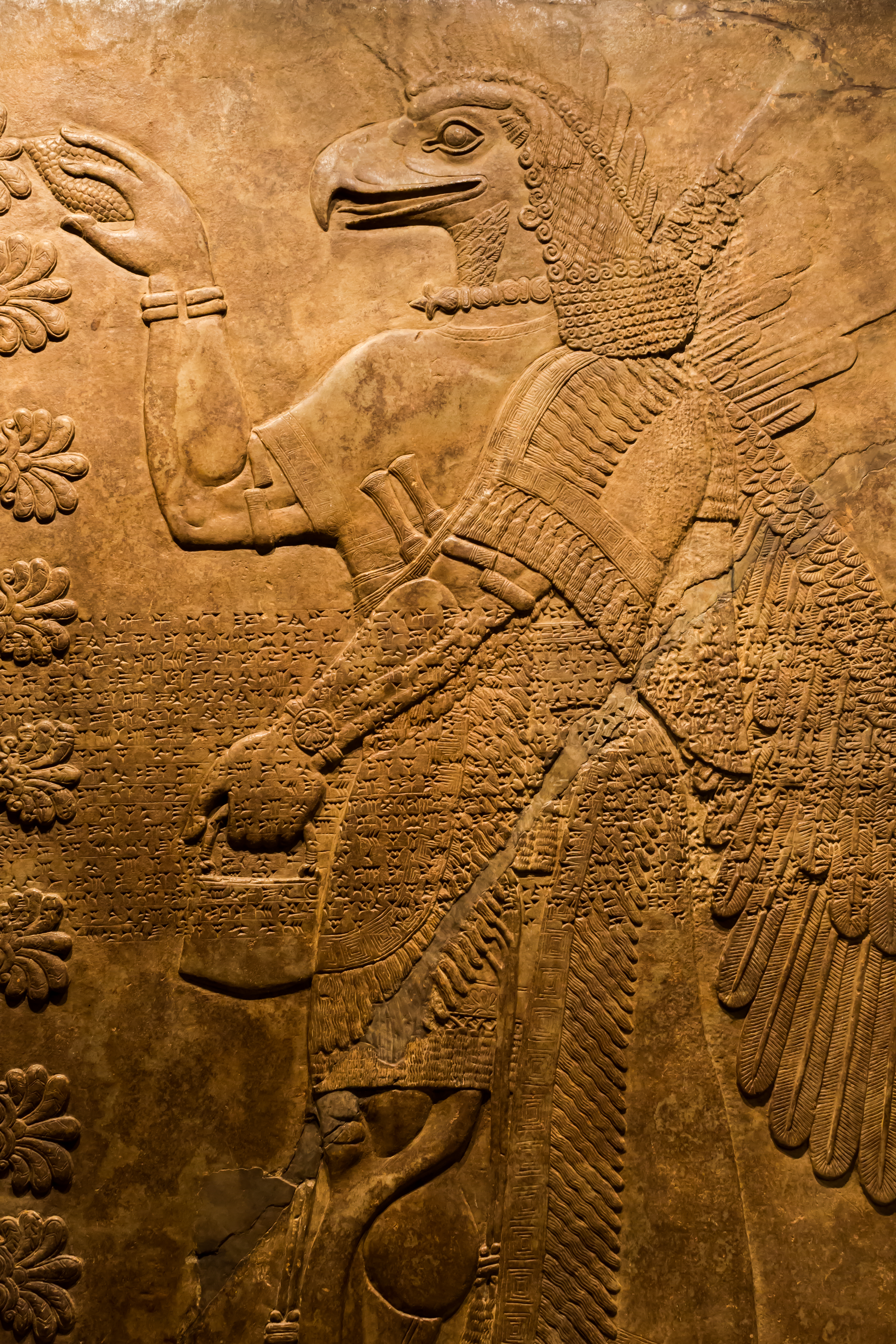 Ancient Assyrian relief carving from the palace of Ashurnasirpal II